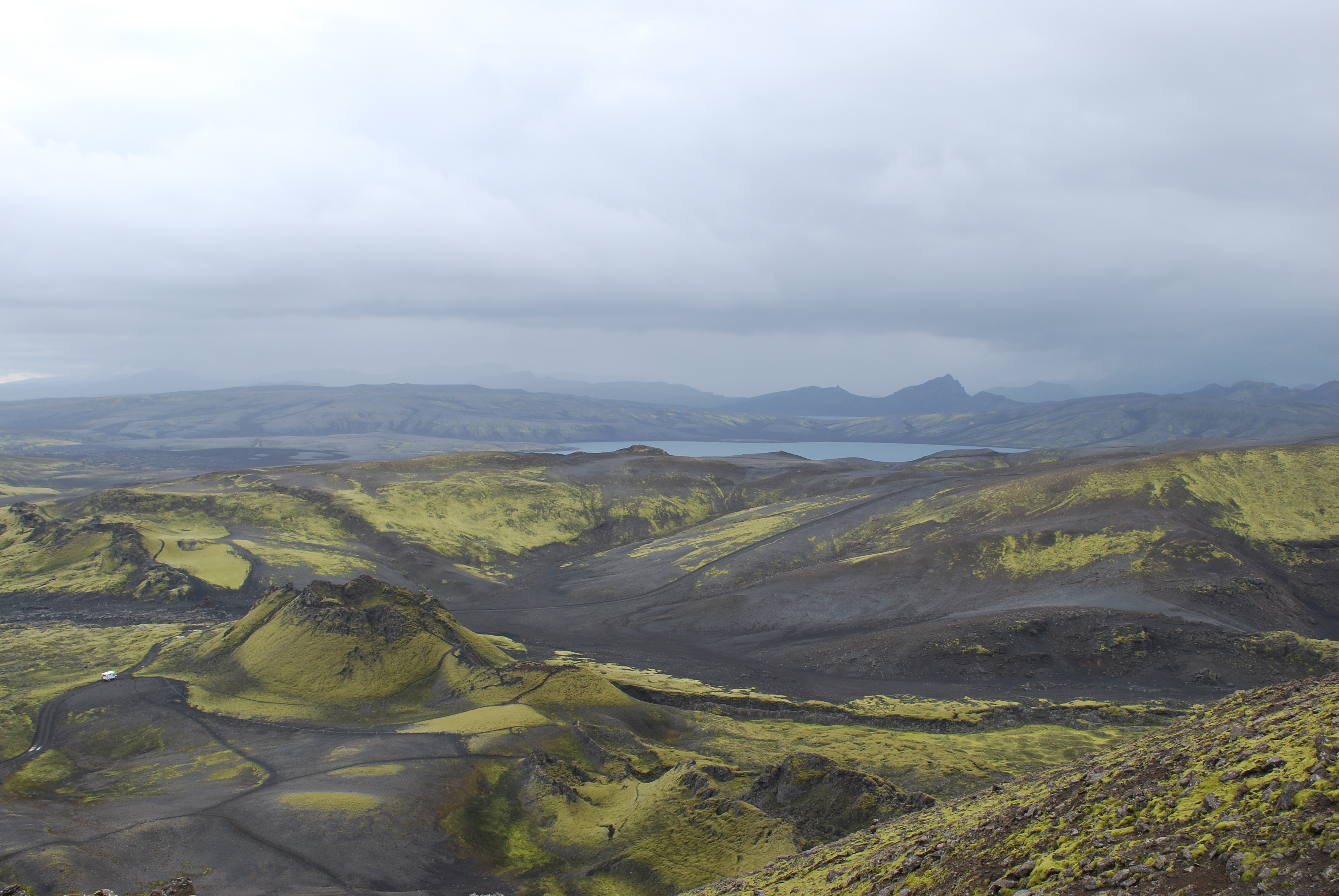 Sight to surrounding terrain of Laki volcano, Iceland. In back is Lambavatn lake